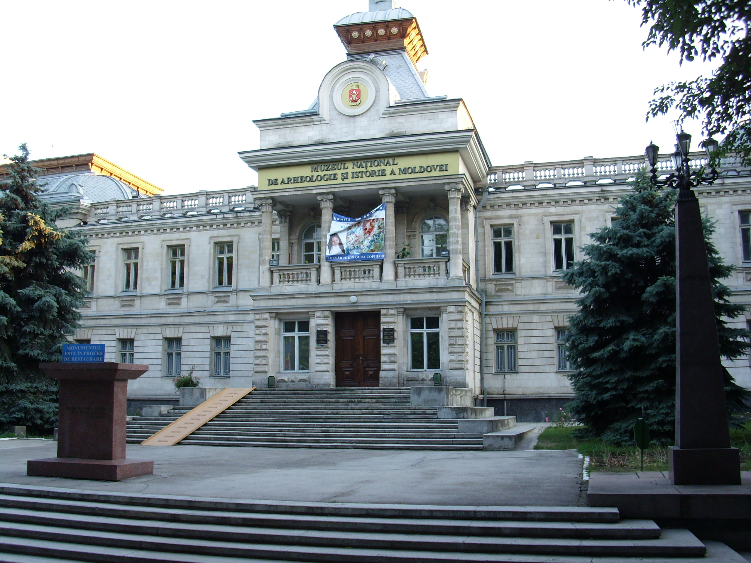 Chisinau / Kishinev, Moldova: National History Museum / Muzeul National de Istorie - Str 31 August 1989 - architects Simsko-Savoiski and H. Lonski